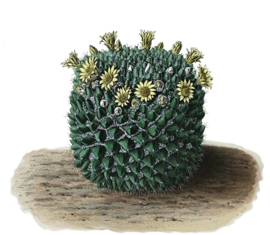 Mammillaria karwinskiana ssp. karwinskiana